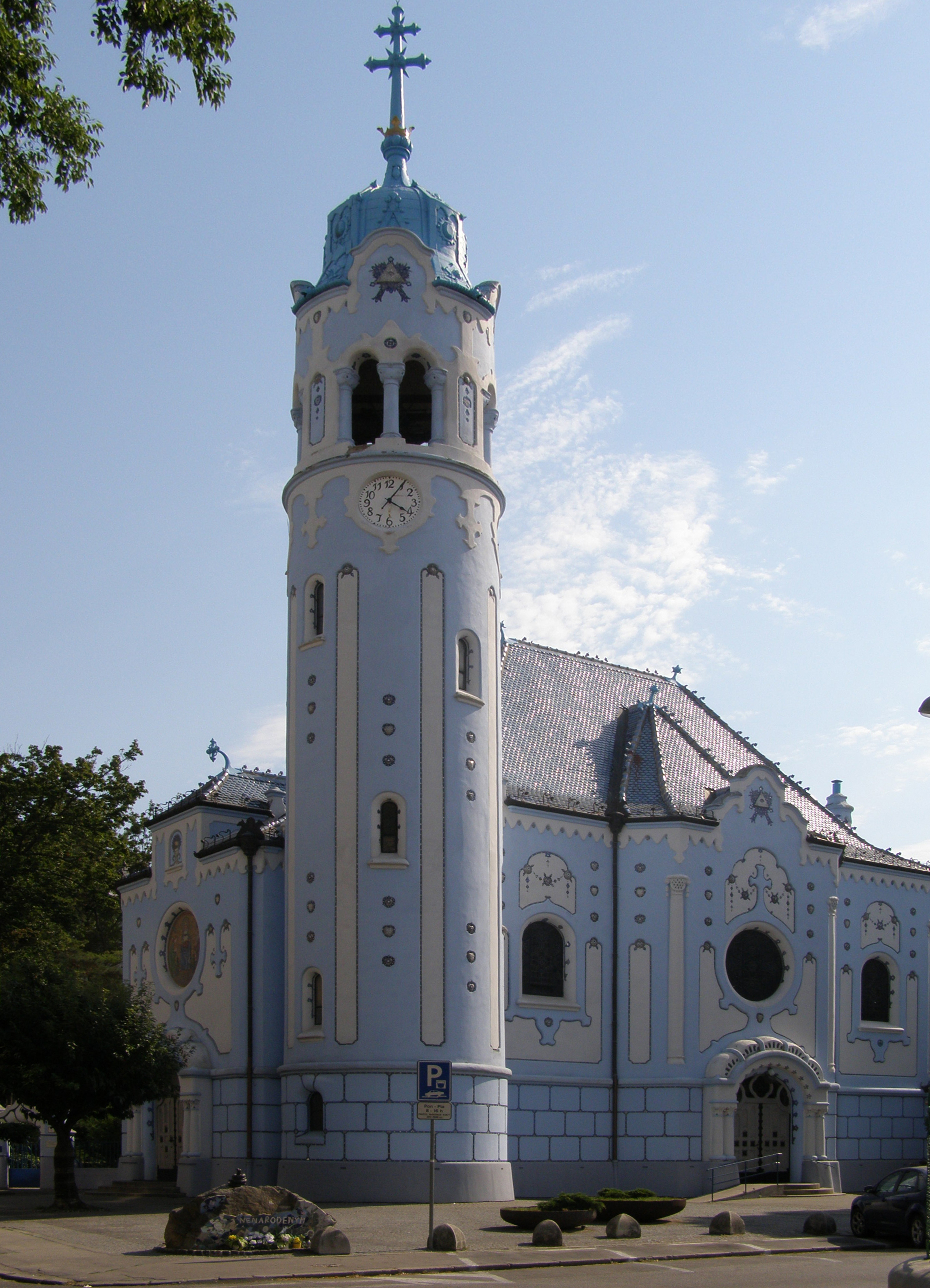 Church of St. Elisabeth (Bratislava)